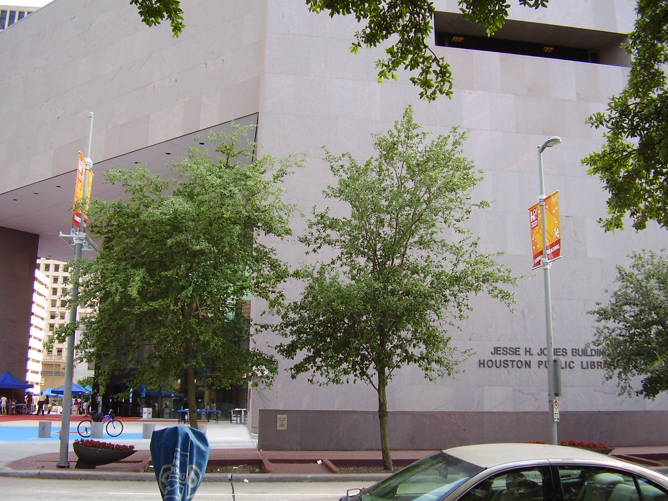 Jesse Jones Building of the Houston Public Library